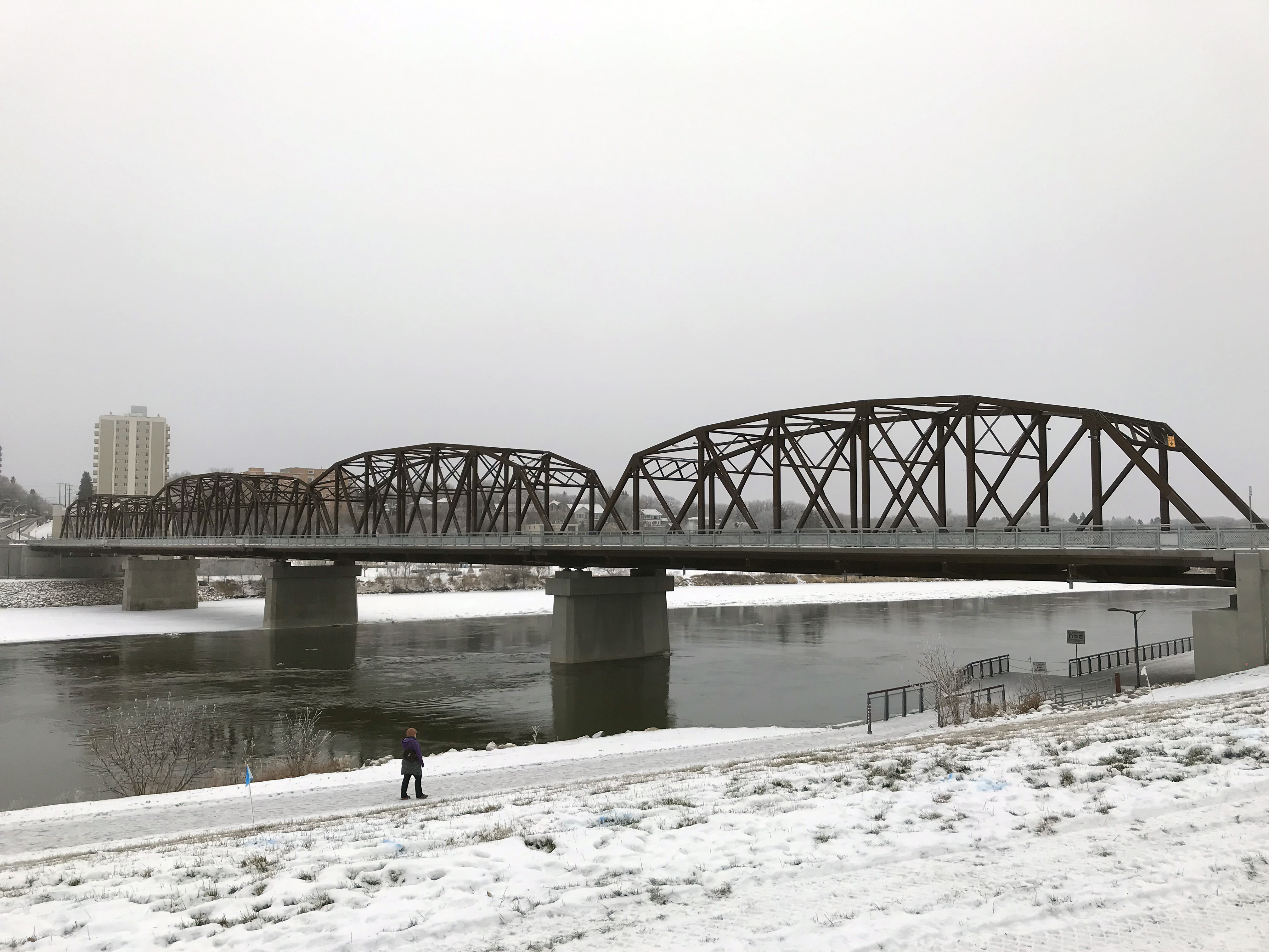 Traffic Bridge in Saskatoon, Saskatchewan, Canada. This is the second Traffic Bridge, opened in 2018. It is a replica of the original Traffic Bridge that was opened in 1907 and closed in 2010.